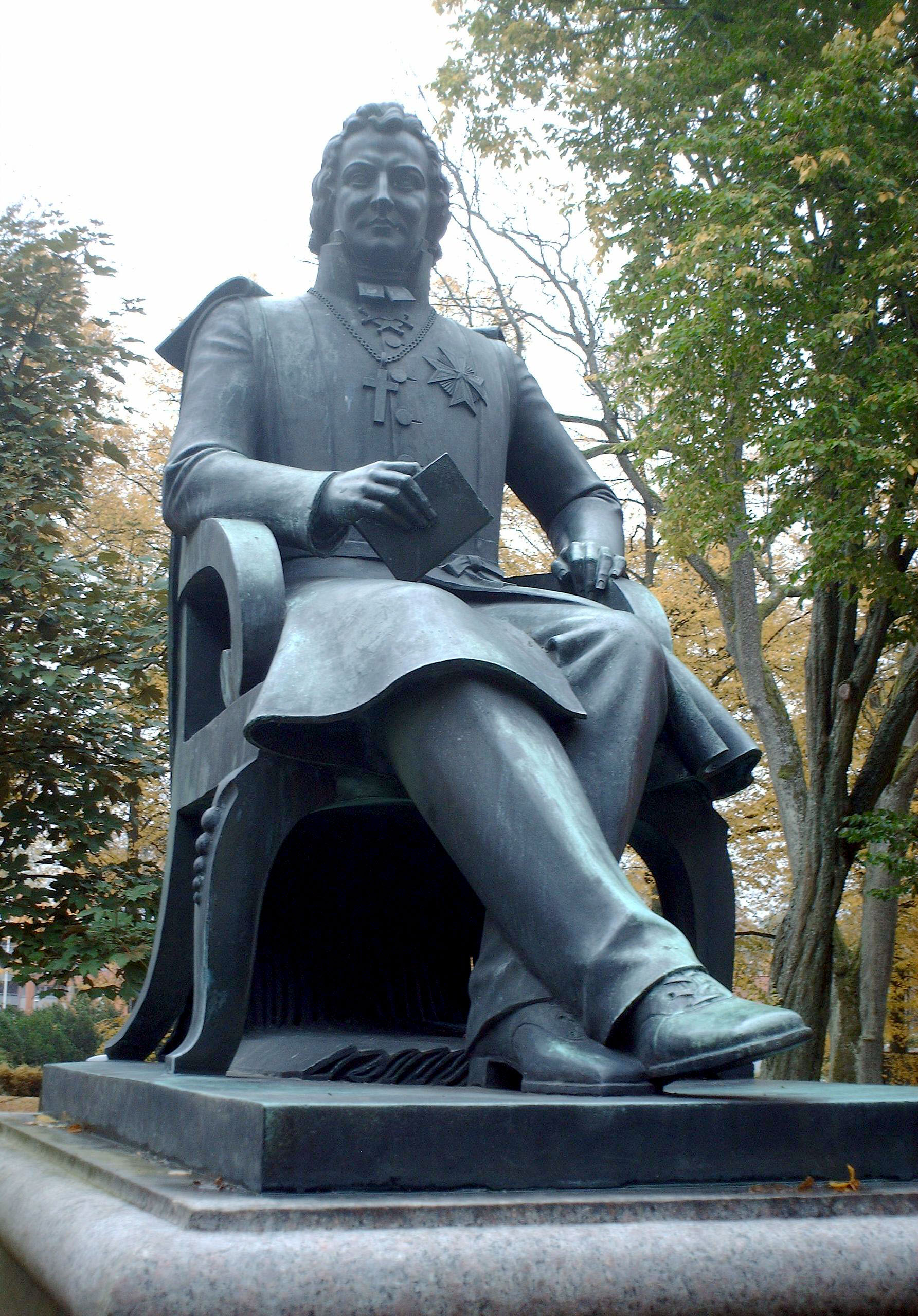 Esaias Tegnér, statue in Växjö, Sweden.